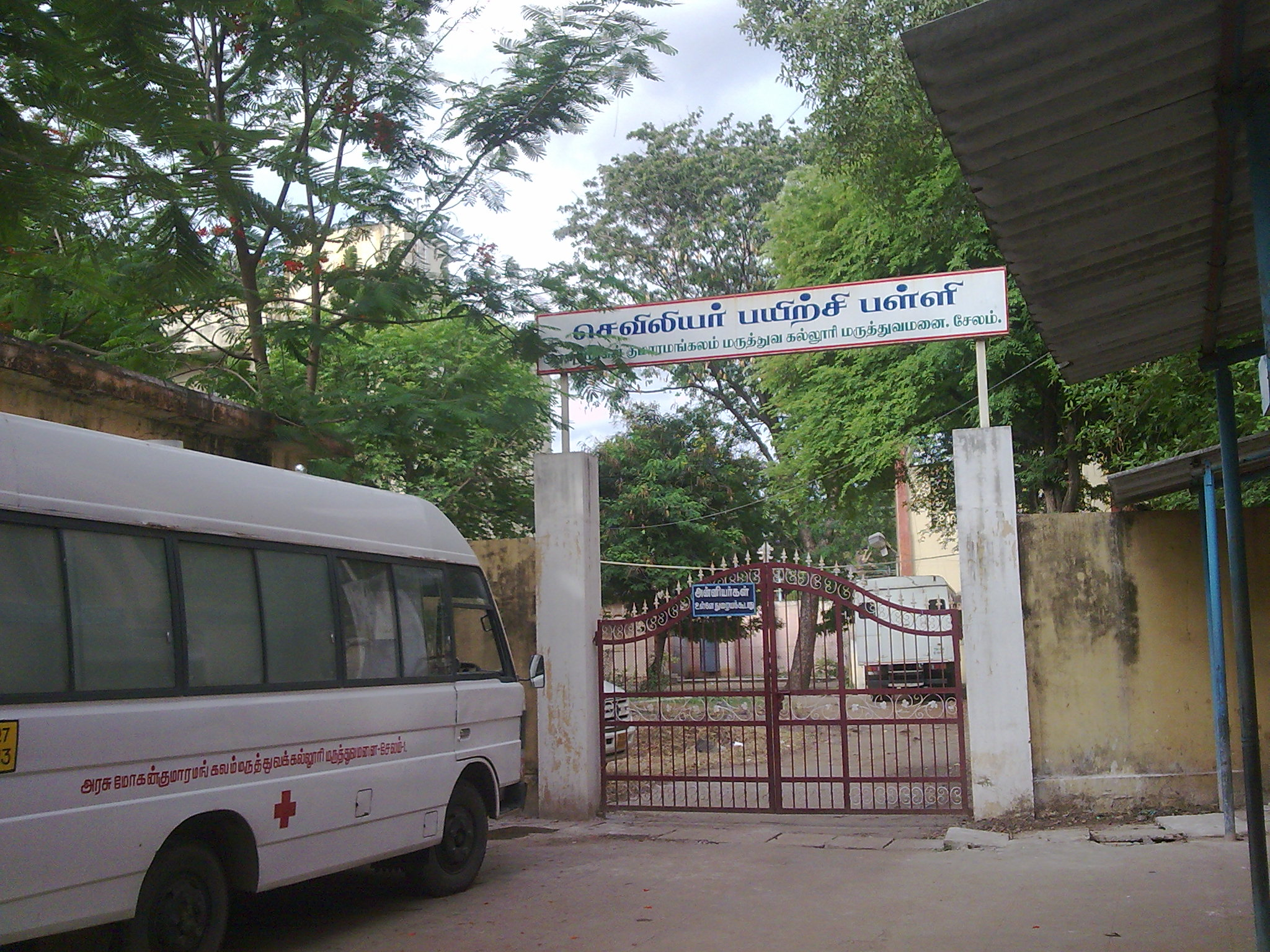 one of the important place in salem, Tamil Nadu,India